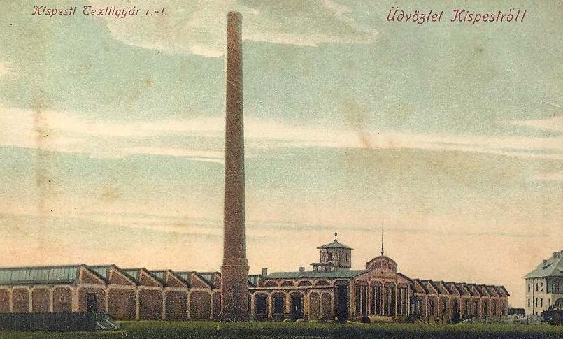 Textile factory in Budapest XIX.